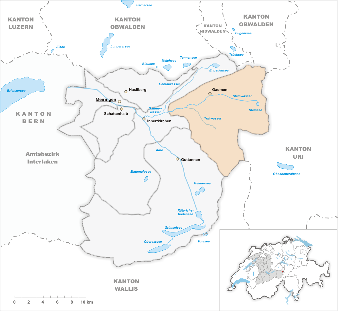 Municipality Gadmen